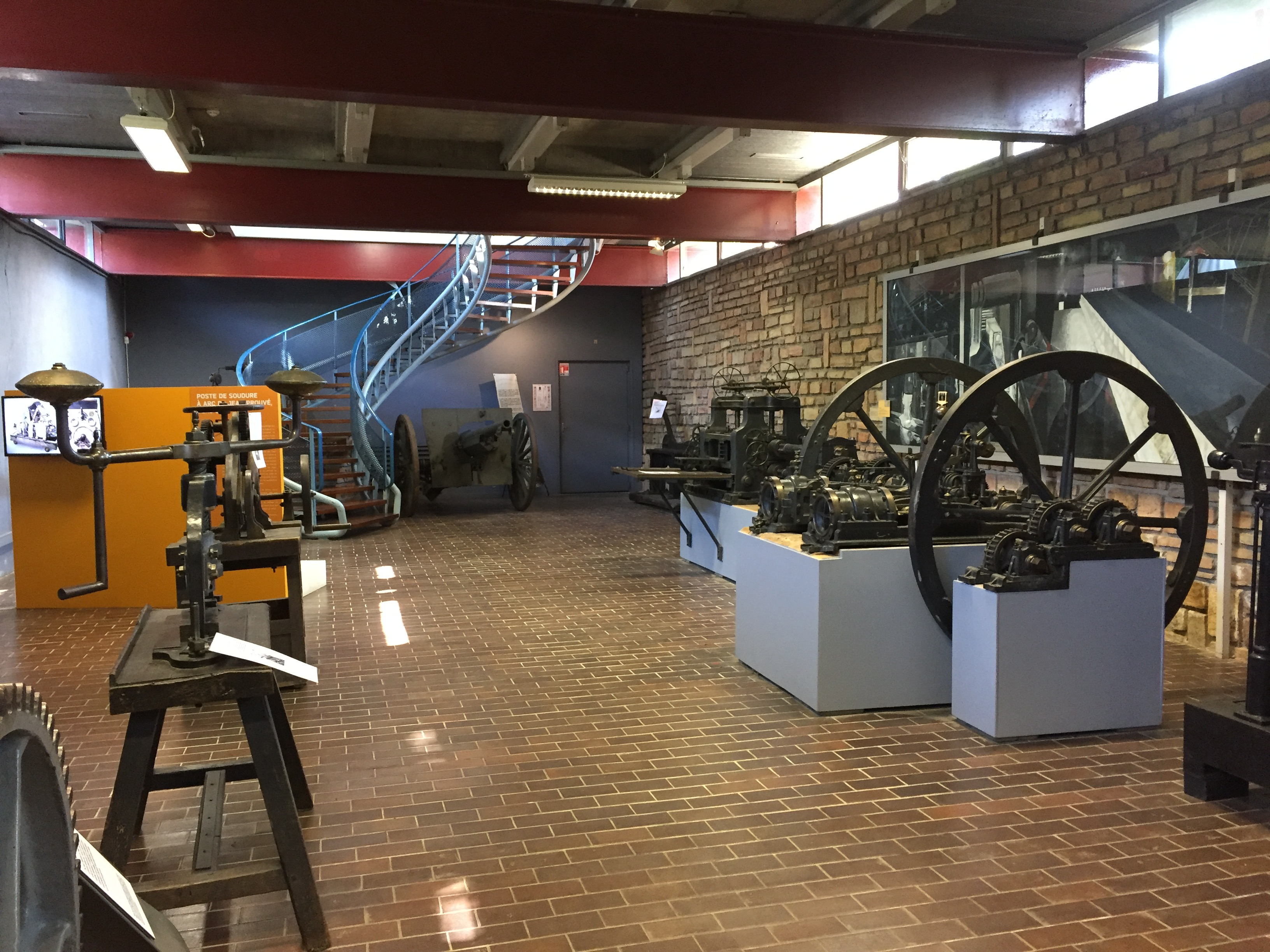 Musée de l'histoire du fer (iron history museum) in Jarville-la-Malgrange, France in 2018